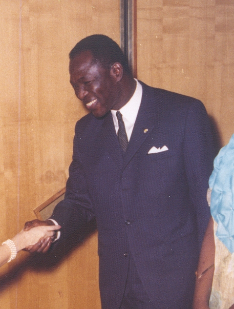 Ambassador Toura Gaba 1966 receiving guests at the embassy